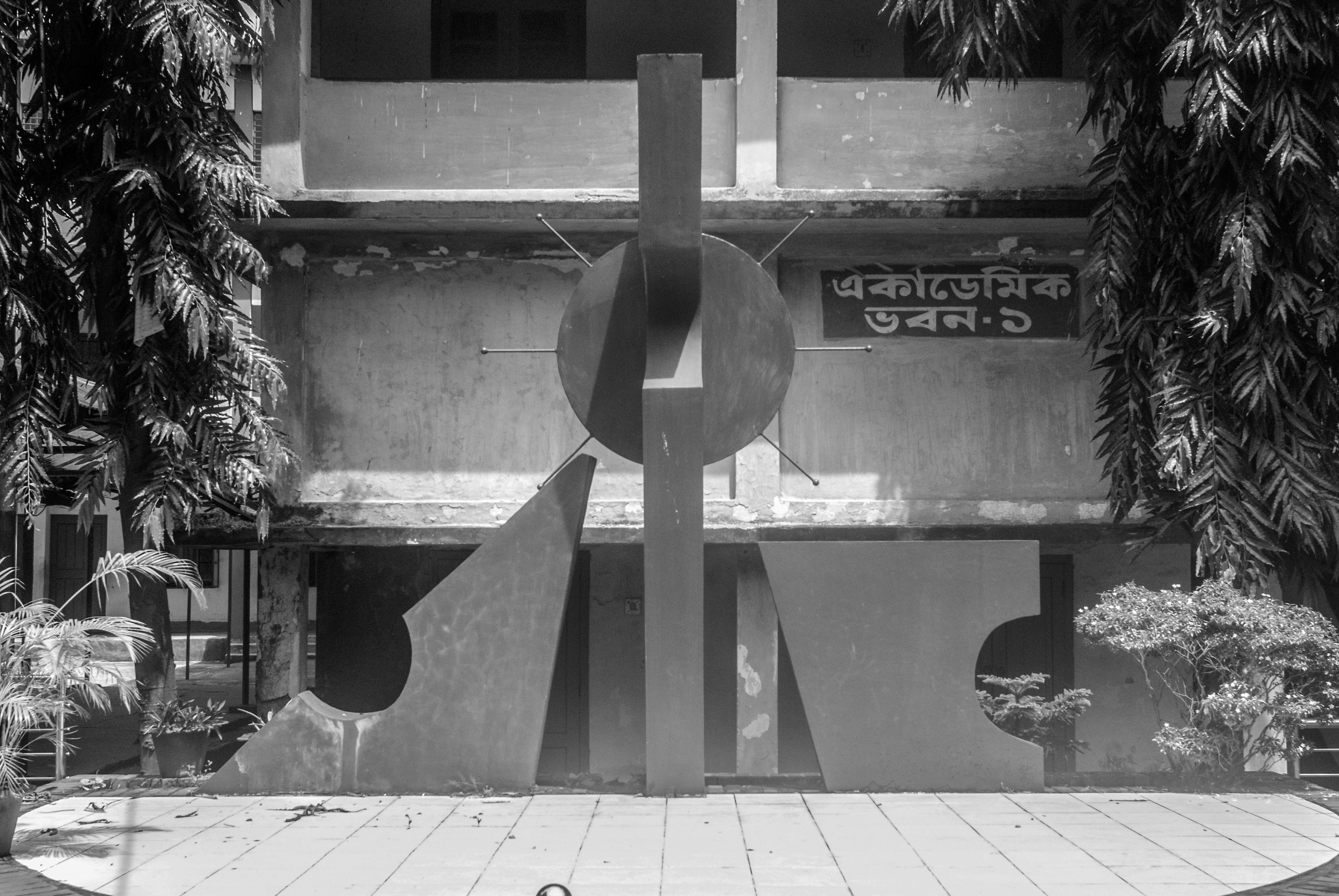 Shaheed Minar, Dr. Khastagir Government Girls' High School